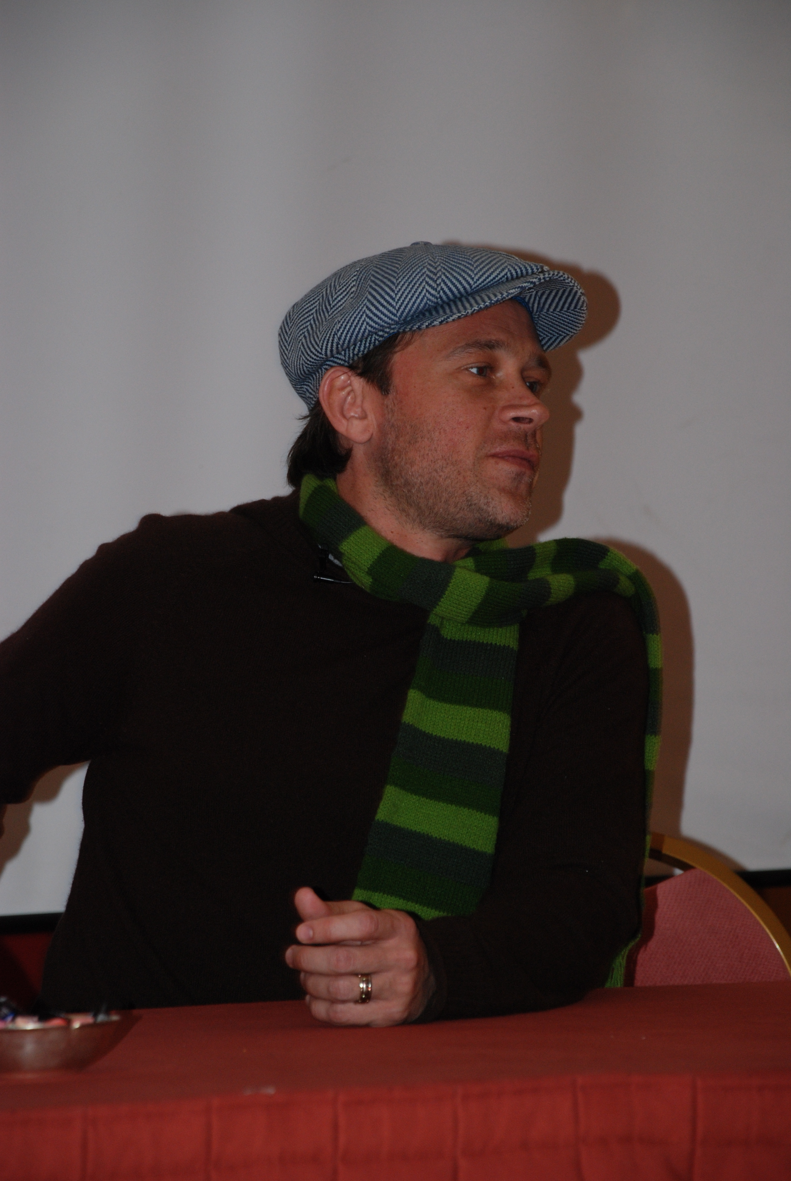 American actor Connor Trinneer